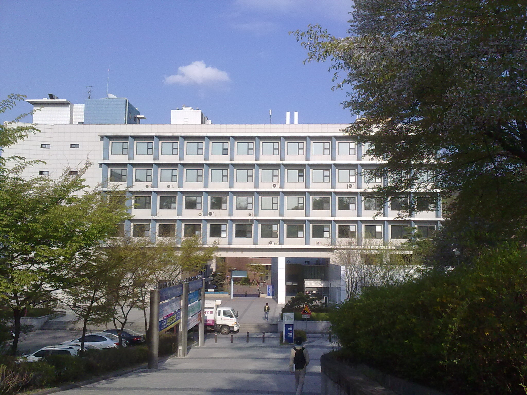 The 21st Century Building in the University of Seoul